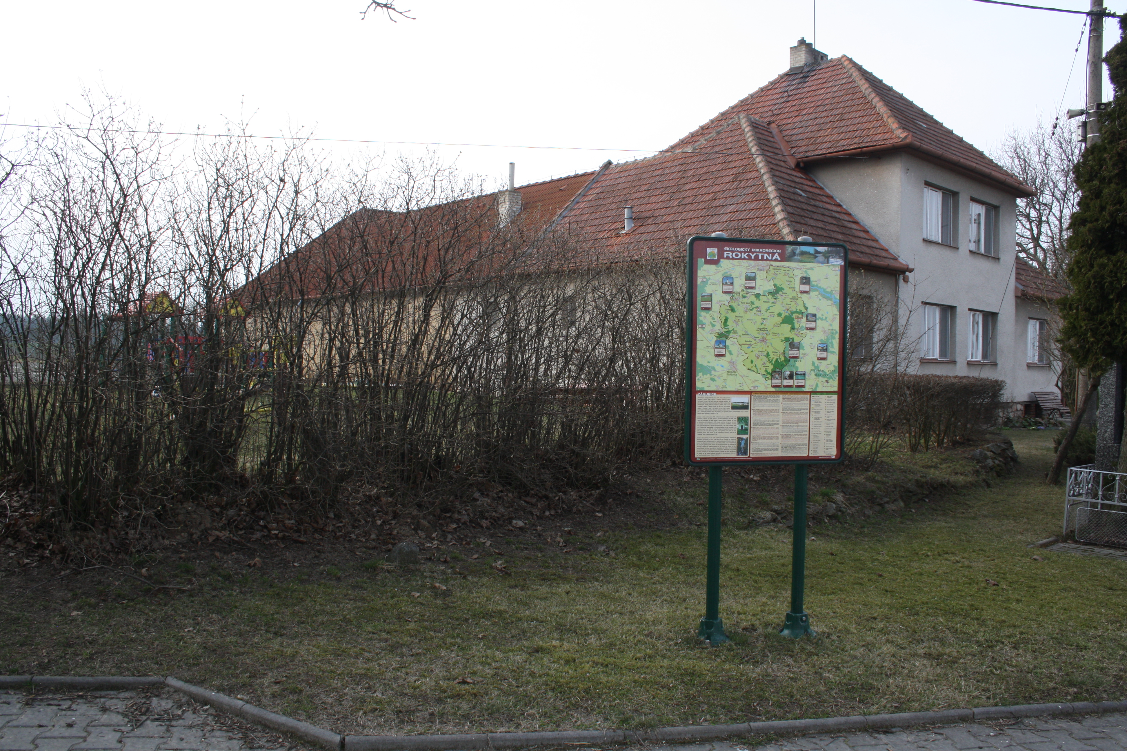 Board of Mirkoregion Rokytná in Zárubice.